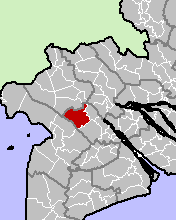 Thot Not District, Can Tho, Vietnam.